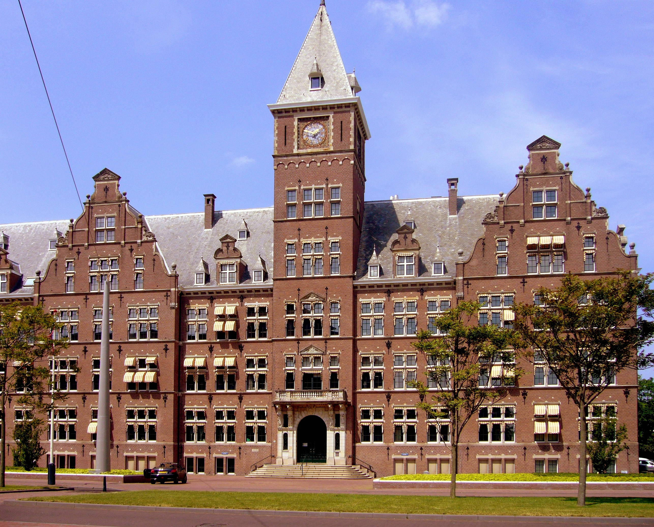 Royal Dutch Shell head office, Carel van Bylandtlaan, The Hague